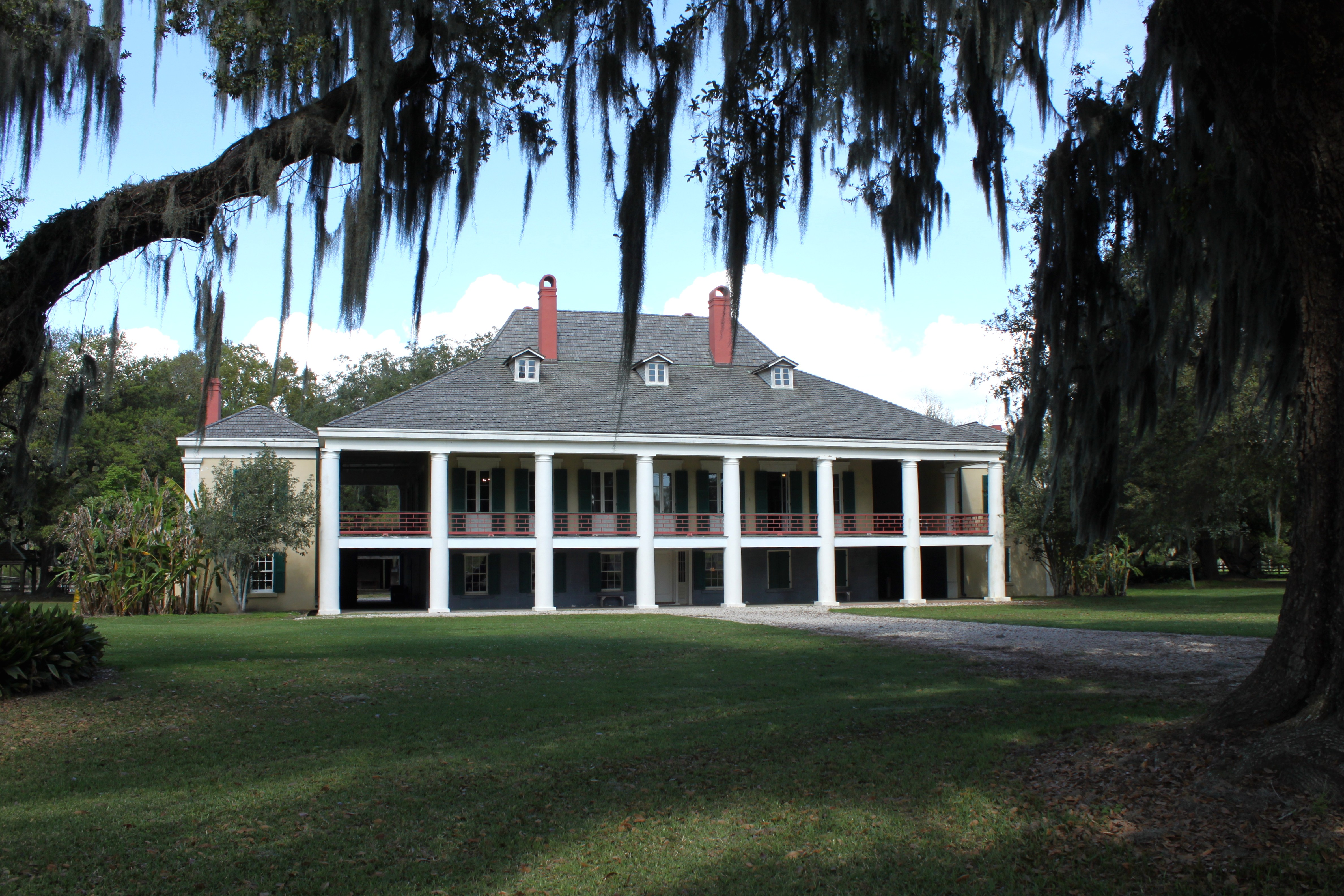 Destrehan Planation House, Louisiana